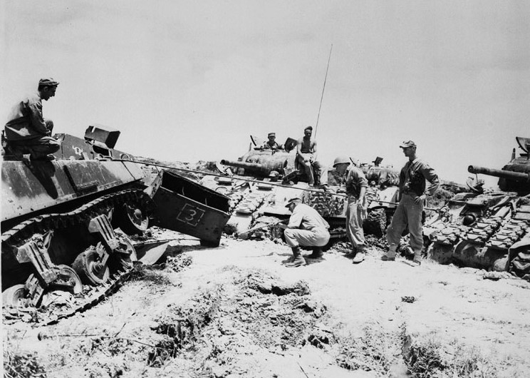 Looking over hit tanks of the Sixth Tank Battalion are, left to right, center, Major General Lemuel C. Shepherd, Jr., Commanding General of the Sixth Marine Division, Lieutenant Colonel Victor H. Krulak, and Lieutenant Benjamin S. Read, aide to General Sh